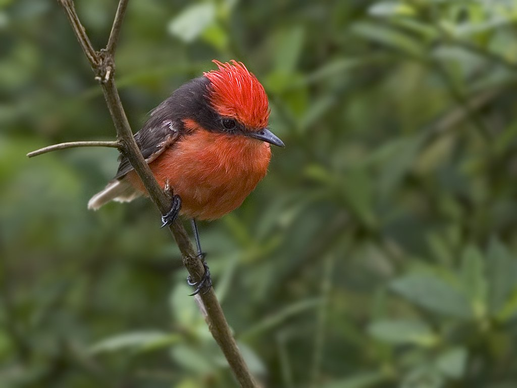 Darwin's Flycatcher Pyrocephalus nanus, male, in the Galápagos Islands (Ecuador). Image by Thomas O'Neil, 2006.